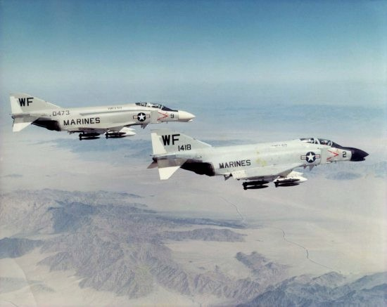 Two McDonnell F-4B Phantom II fighters (BuNos 150473, 151418) of Marine fighter-bomber squadron VMFA-513 Flying Nightmares in the fall of 1964. The F-4Bs are carrying eighteen 226 kg (500 lb) bombs, four 2.75 inch rocket pods and four AIM-7 Sparrow air-to-air missiles. Beginning on 1 August 1963 the squadron was equipped with the F-4B and trained MCAS at El Toro through October 1964, when VMFA-513 deployed to NAS Atsugi, Japan.